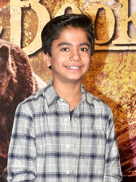 Neel Sethi Press conference of The Jungle Book